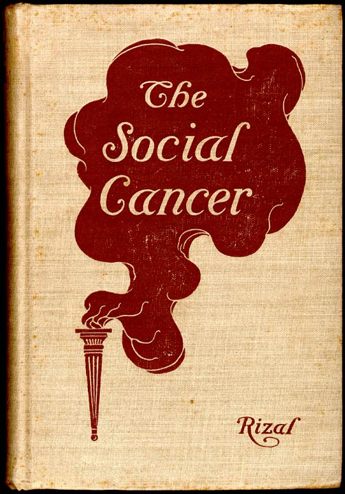 The cover of The Social Cancer, an English Version of Noli Me Tangere translated by Charles Derbyshire. Published by the World Book Company in New York in 1912.